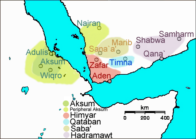 Created by me (Yom). Map of Horn of Africa and South Arabia at the end of GDRT's reign, ca. 230 AD.